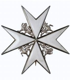 This is the star of the Most Venerable Order of the Hospital of St John of Jerusalem. This particular example is the breast star of a knight or dame of grace of the Order. This example comes from my personal collection.